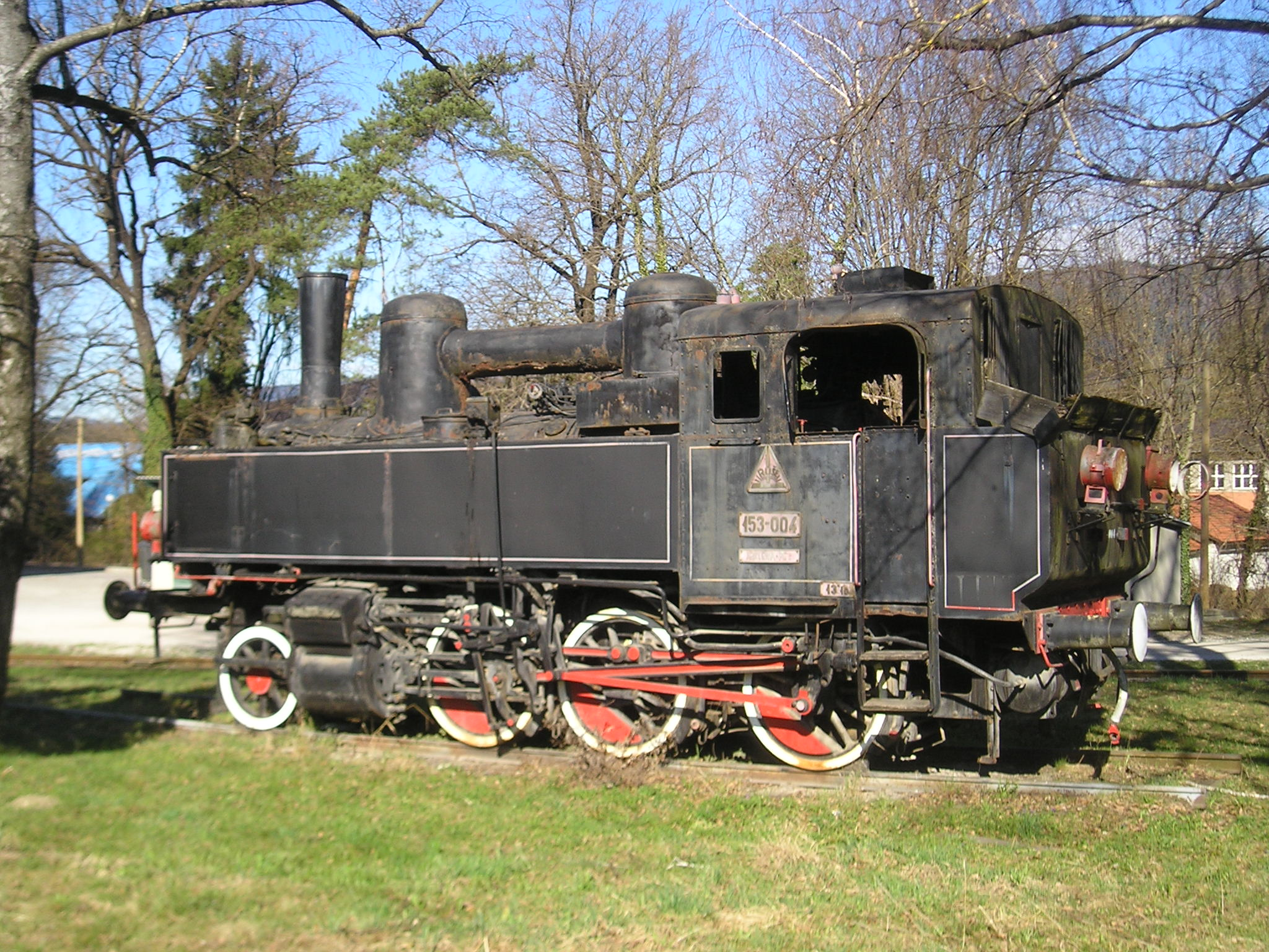 Standard gauge steam locomotive 153-004 along the industrial railway to the TDR factory in Ruše, Slovenia No information sheet for the locomotive is available, please see its "sister" in Zalog: File:JDZ 153-006 in Zalog.jpg. Capacity of water: 1.5 m³, capacity of coal: 2.5 t. The locomotive was produced by Krauss Linz in 1899, serial nr.: 3973. It was used for shunting in the TDR (Ruše Nitrogen Factory). Pospichal Lokstatistik. About the class 153. More photos.